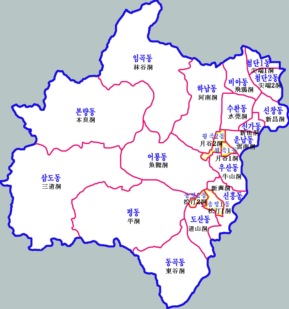 Gwangsangu-map